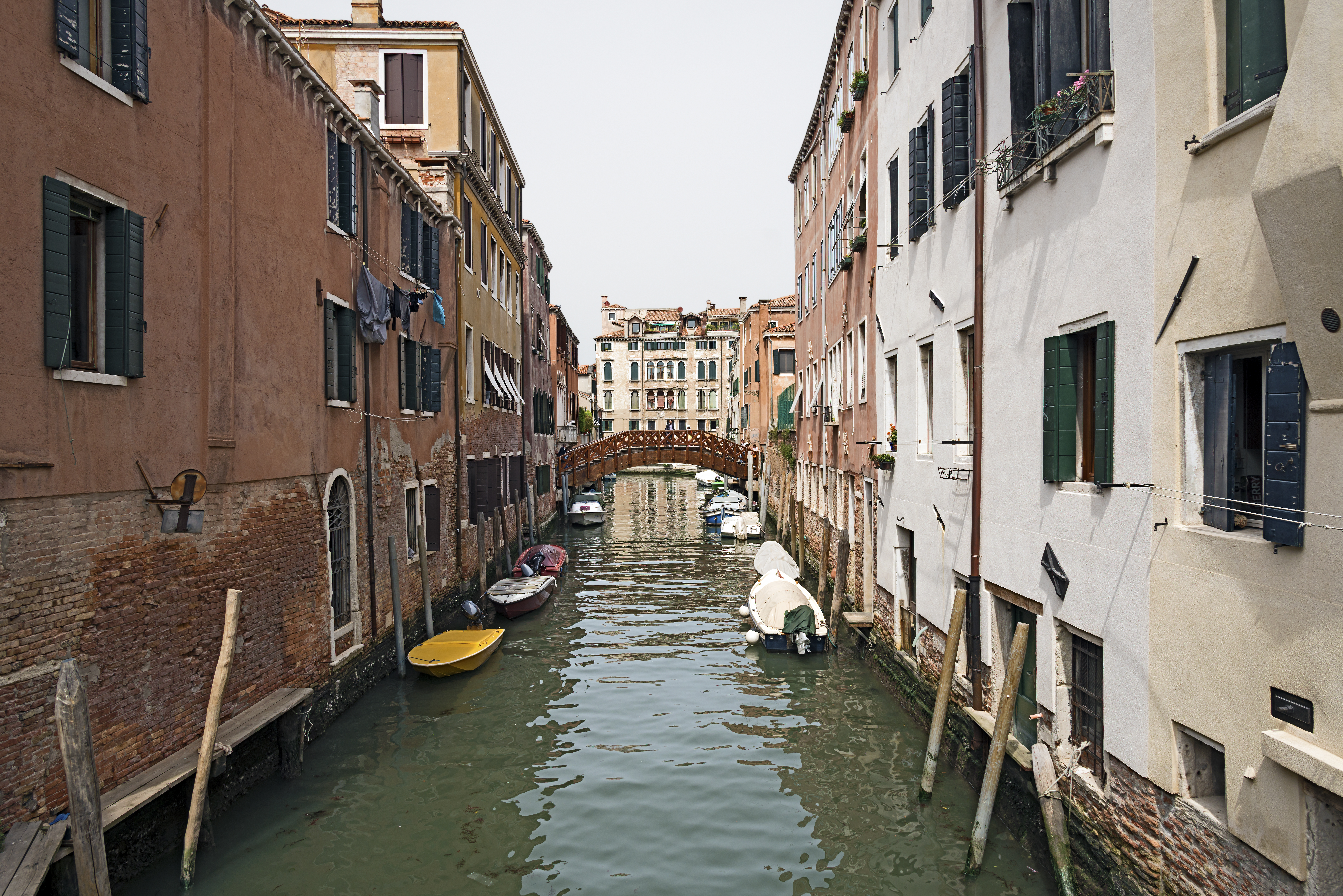 Rio di San Pantalon in Venice. The rio in its entirety, seen from the San Pantalon bridge.